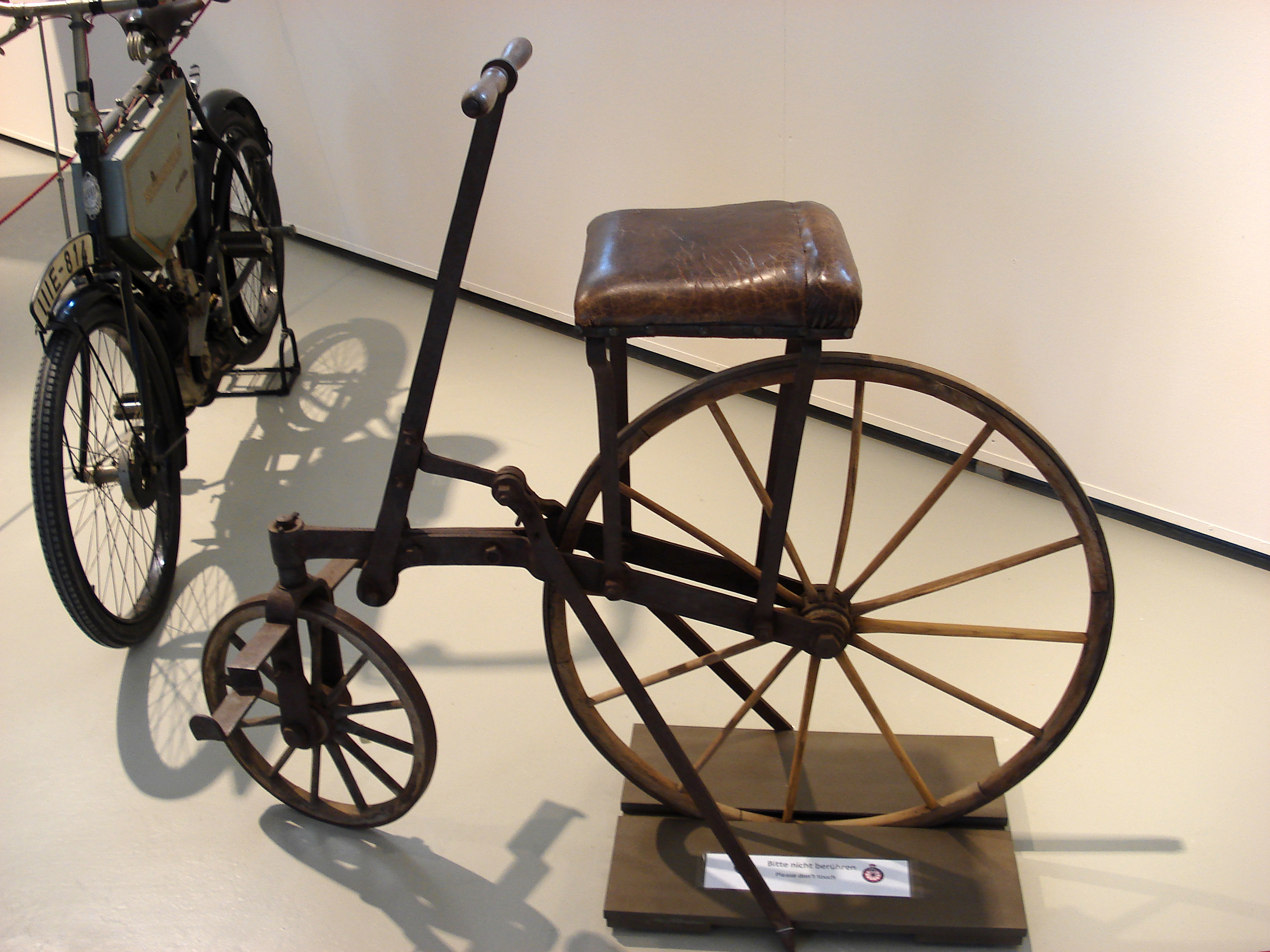 The Schubstockrad (“push-rod bike”) of 1850, first ever mechanically driven bicycle, shown at Langenburg car museum.